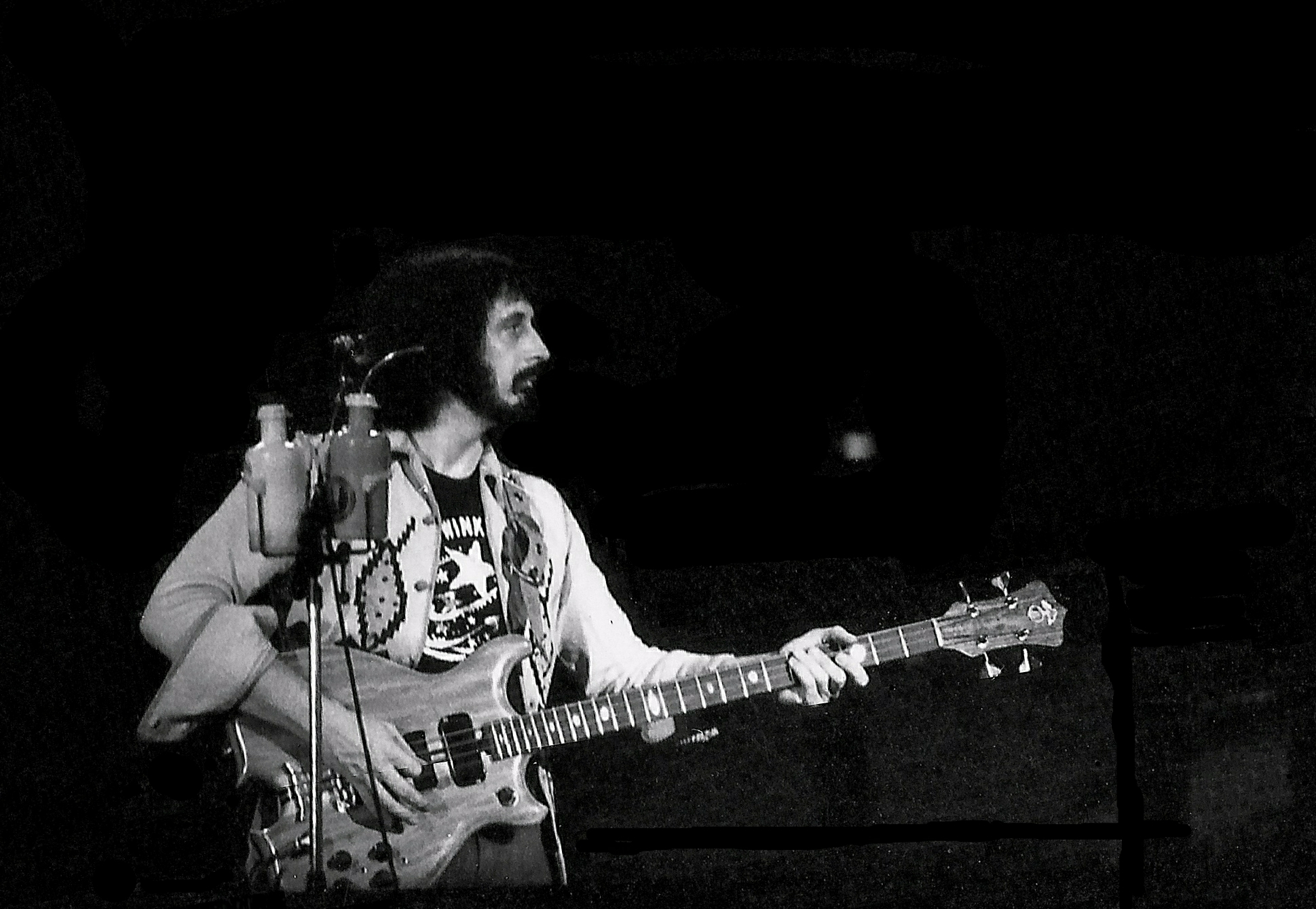 76_3_28_1-JAE Hand copy and stamp in small groups 1-25 pixels at a time up to big swaths around the edges, to remove dust, scratches, etc. For a 2400 pixels/inch scan of a 37 year old proof sheet, its pretty good. But not to be mistaken for a scan of the negative. I like Aviary's rotate tool but the file chokes the replace path... Its about 2400 X 2000. I changed to a less 'good' jpg, got the file size down to 2M, and succeeded.